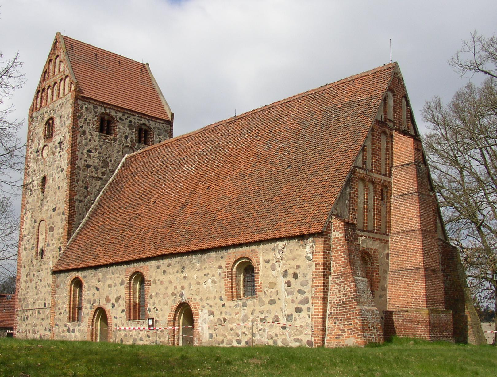 Church in Heiligengrabe-Königsberg in Brandenburg, Germany